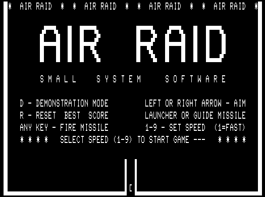 Title screen of Air Raid, a 1979 TRS-80 video game.